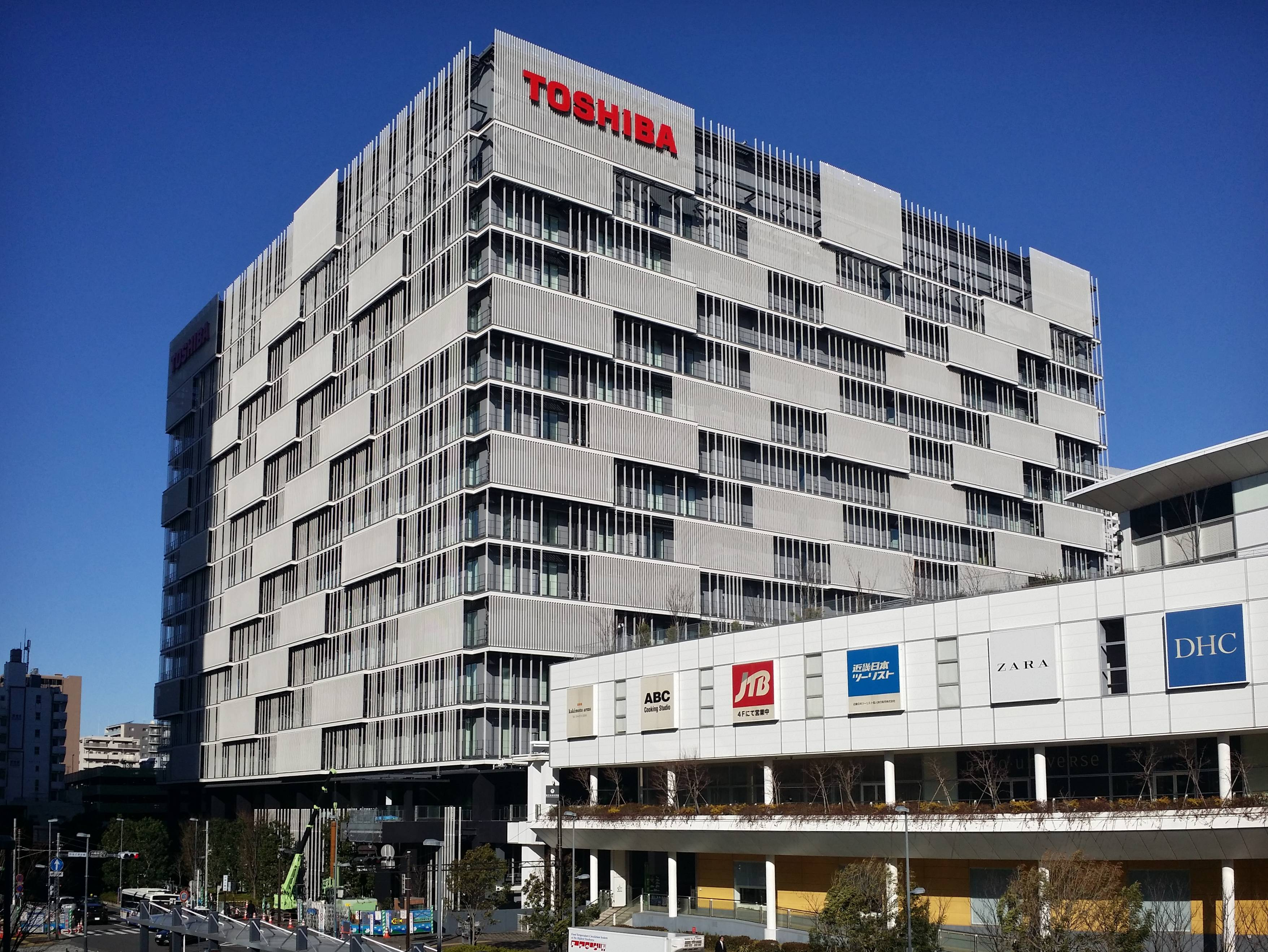 Lazona Kawasaki Toshiba Building (Saiwai-ku, Kawasaki, Kanagawa).